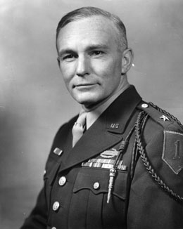 Deputy Commander of the U.S. 1st Infantry Division, Brigadier General George Arthur Taylor (1899 - 1969)